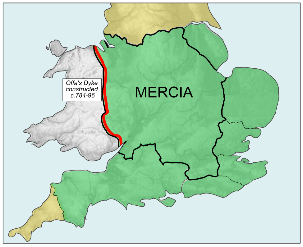 Cropped and adapted version of File:Mercian Supremacy x 4.svg; showing the largest extent of Mercia. Originally based on a map in Hill, 'An Atlas of Anglo-Saxon England'